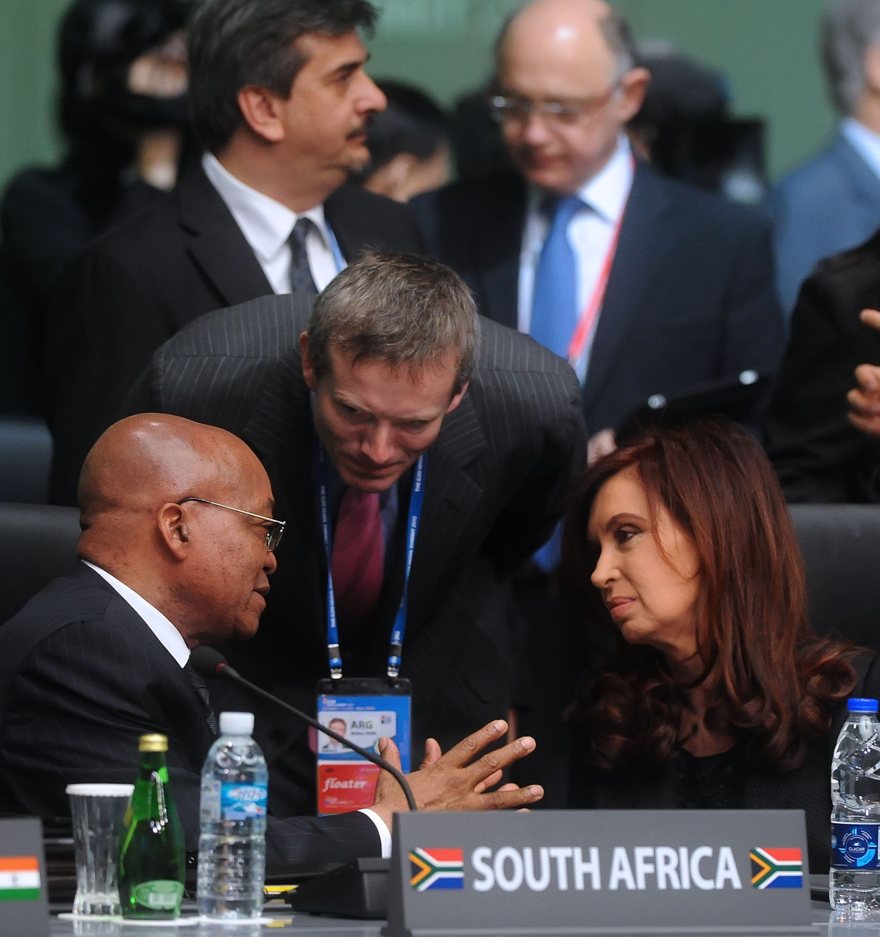 Presidents of South Africa Jacob Zuma and Argentina Cristina Fernandez during Seoul G20 meeting